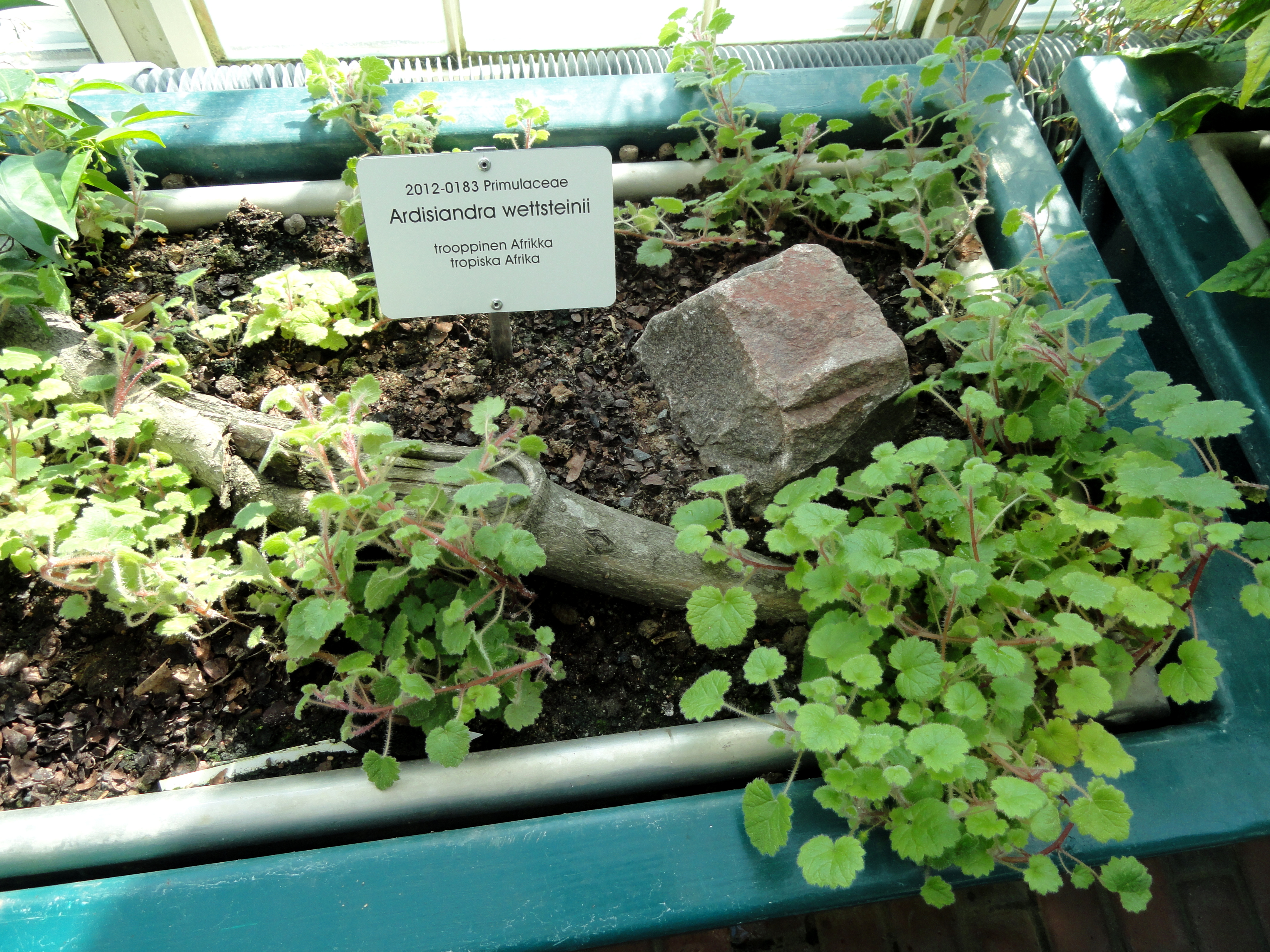 Botanical specimen. The University of Helsinki Botanical Garden at Kaisaniemi